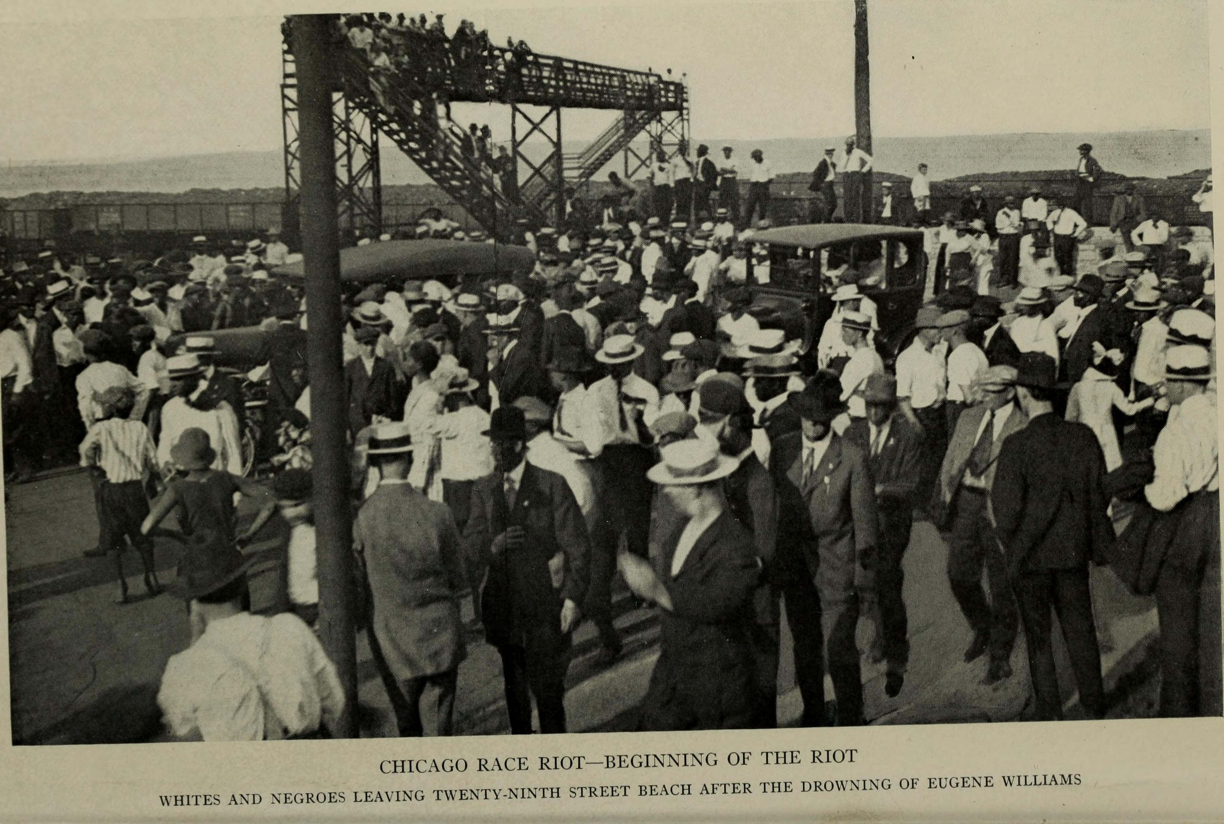 Title: The Negro in Chicago; a study of race relations and a race riot Year: 1922 (1920s) Authors: Chicago Commission on Race Relations Subjects: African Americans Race riots Publisher: Chicago, Ill., The University of Chicago Press Text Appearing Before Image: ' Text Appearing After Image: THE NEGRO IN CHICAGO A STUDY OF RACE RELATIONSAND A RACE RIOT BY THE CHICAGO COMMISSION ONRACE RELATIONSnegroinchicagost00chic_0